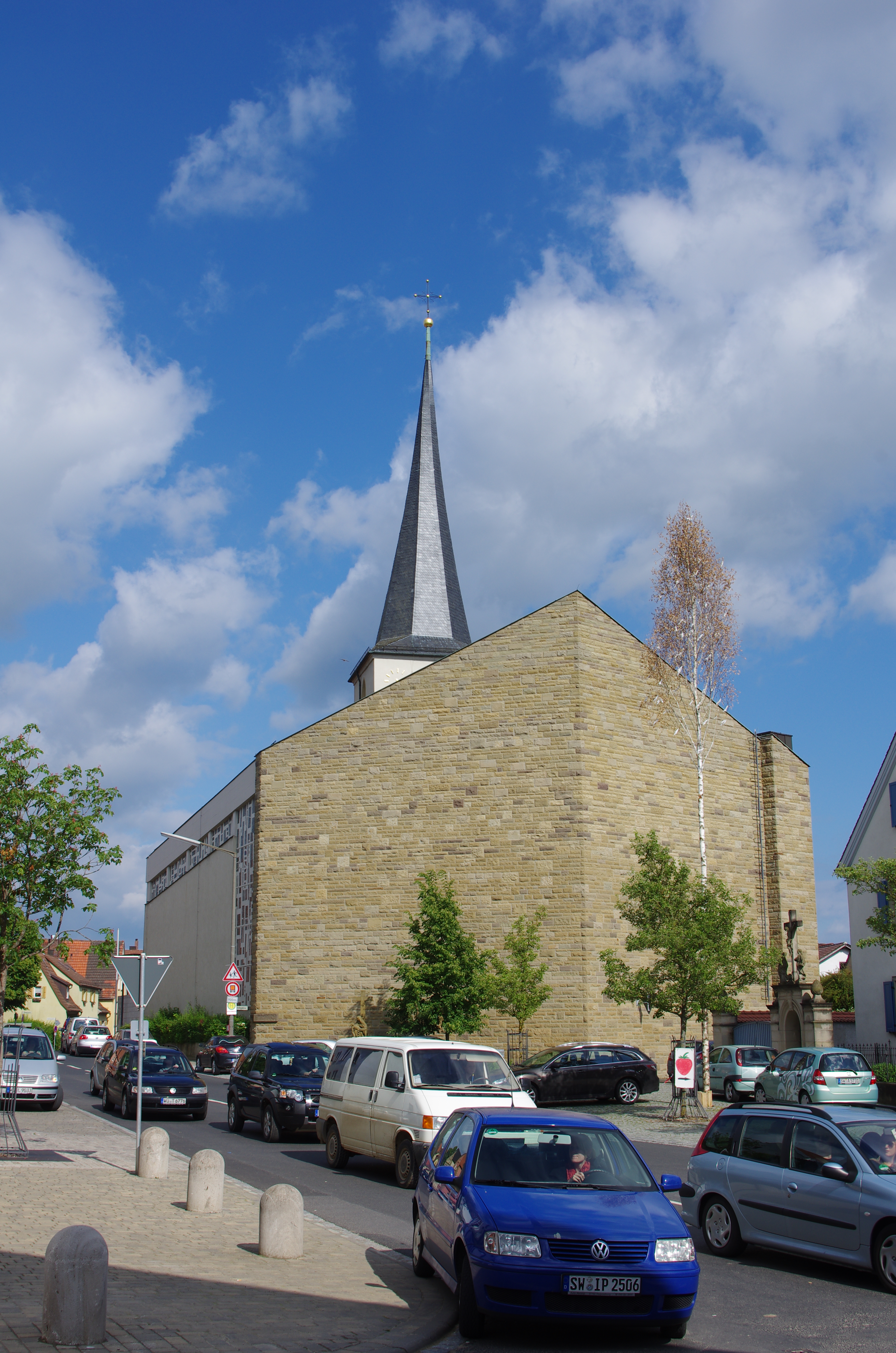 Google Maps - Google Earth